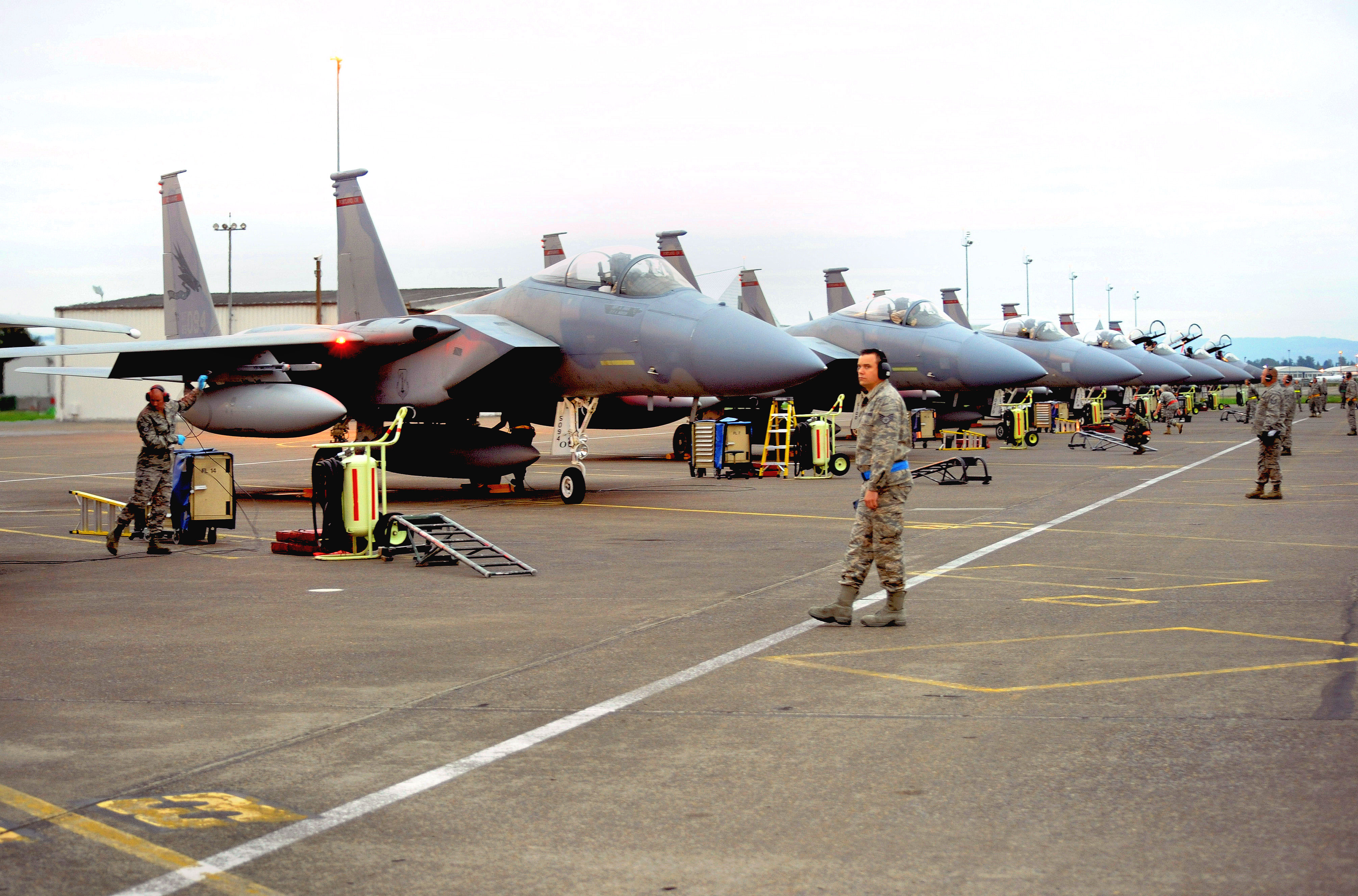 Airmen of the Oregon Air National Guard's 142nd Fighter Wing prepare six F-15 Eagles to depart for a 30-day overseas training tour in support of Exercise IRON FALCON to the United Arab Emirates Air Warfare Center on October 2, 2010. Along with the six jets, 131 members of the Oregon Air National Guard also deployed to the UAE in support of Exercise IRON FALCON . (U.S. Air Force Photograph by Staff Sgt. John Hughel, 142nd Fighter Wing Public Affairs Office)